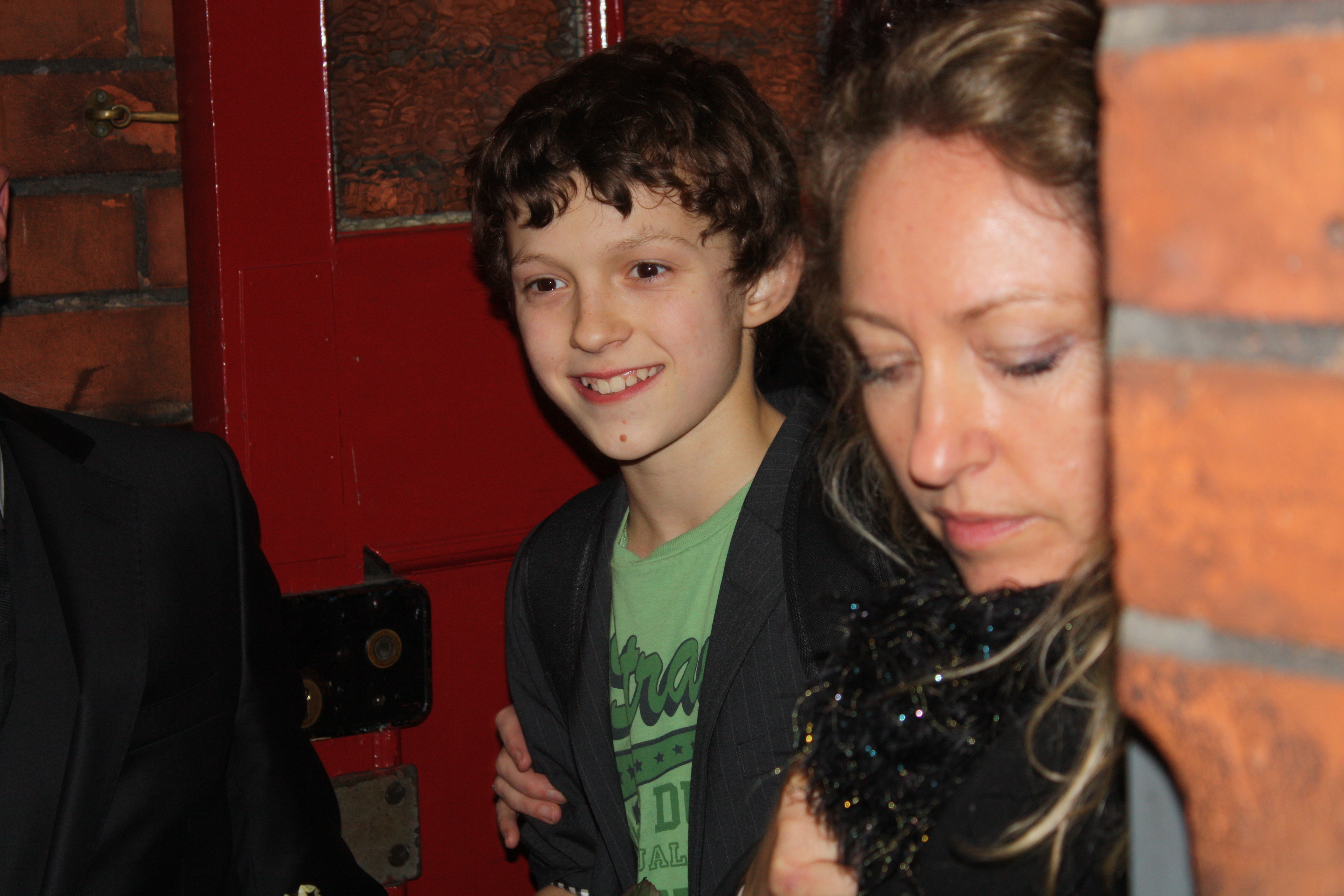 Child actor, dancer and singer Tom Holland (center) leaving London's Victoria Palace Theatre after the 5th Birthday performance of Billy Elliot the Musical on 31 March 2010